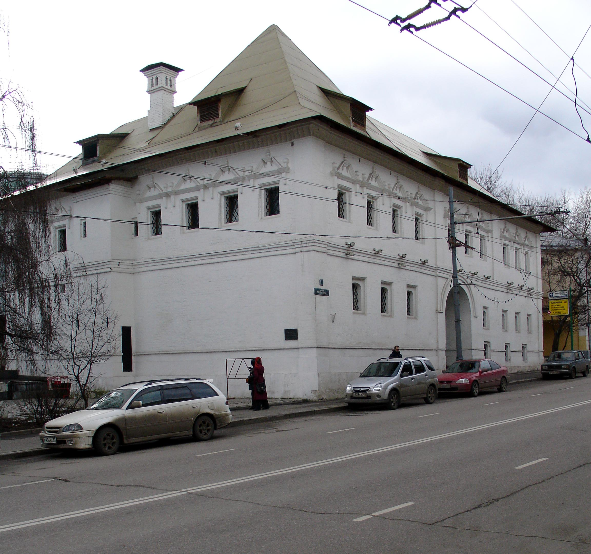 17th century building at 1, Prechistenka, Moscow